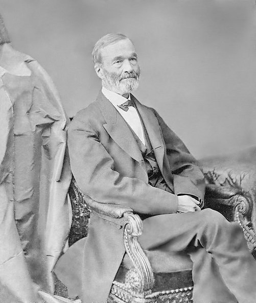 Carey A. Trimble was a politician from Ohio. This picture is cropped from file:Hon._Carey_A._Trimble,_Ohio_-_NARA_-_527335.jpg